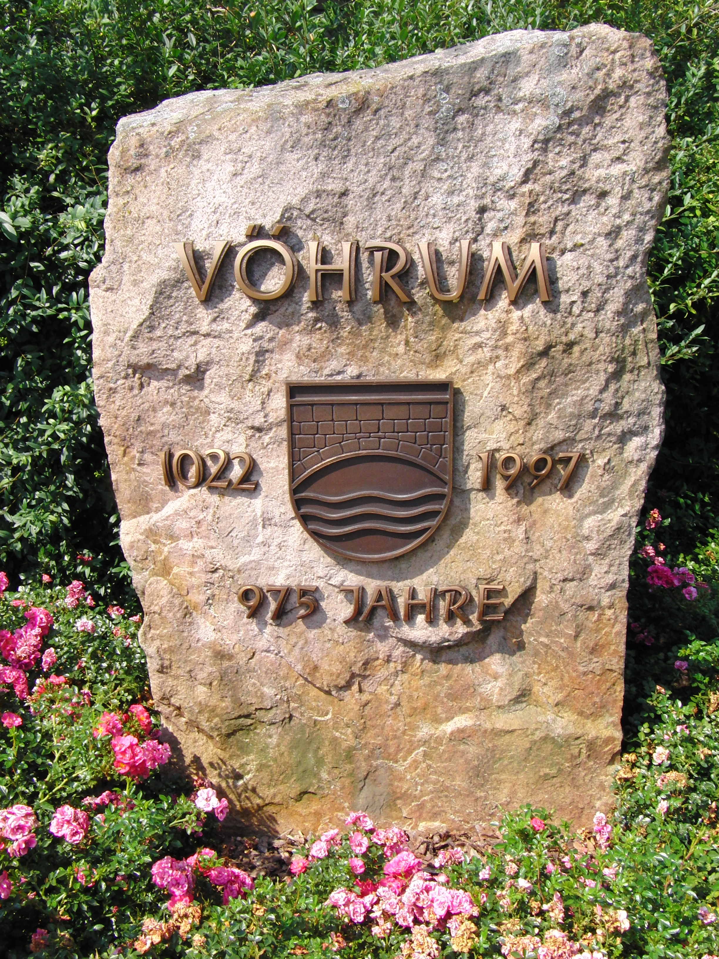 Rock with year of foundation of Vöhrum